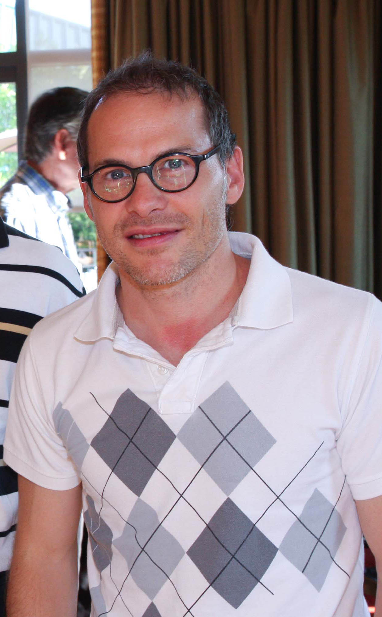 Jacques Villeneuve at the Mont-Tremblant Legends of Motorsport historic racing event in 2010.